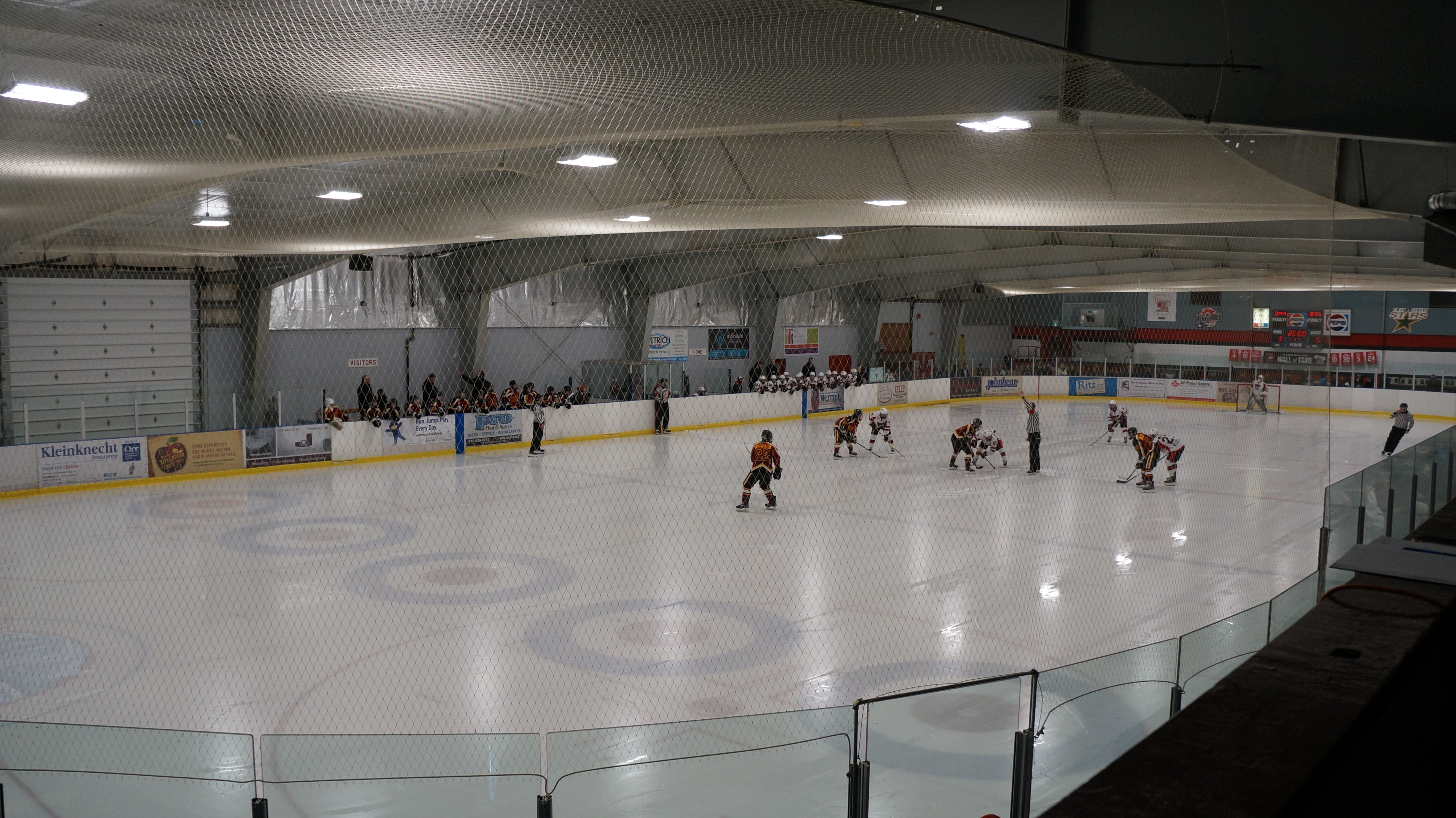 The Wellesley Applejacks hosting the Grimsby Peach Kings at the Wellesley Arena in Wellesley, Ontario on March 24, 2019.